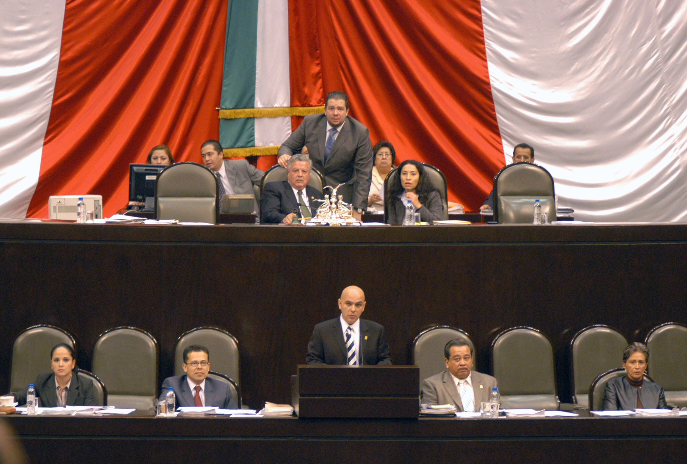 Antonio del Valle Toca, Diputado Federal LX Legislatura Congreso de la Unión